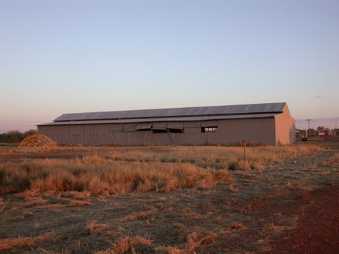 © Bruce Mitchell 2006